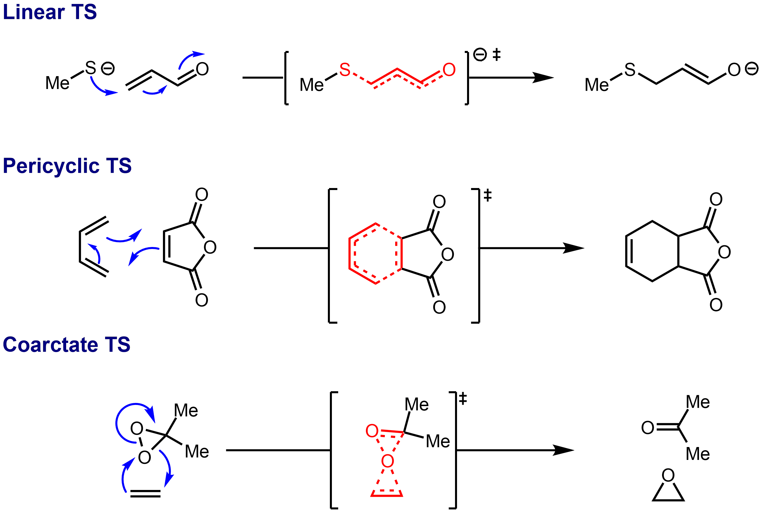 Simple examples of linear, pericyclic, and coarctate topologies